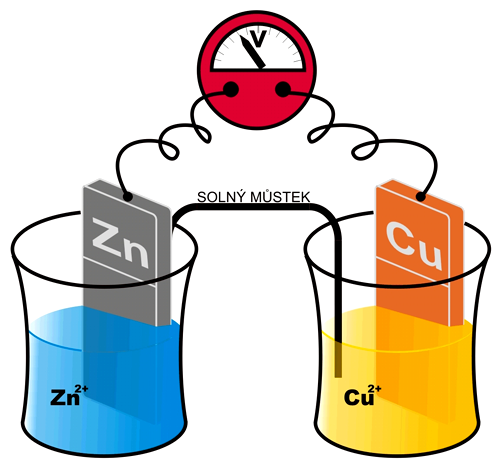 Daniell cell with Czech description (salt bridge).